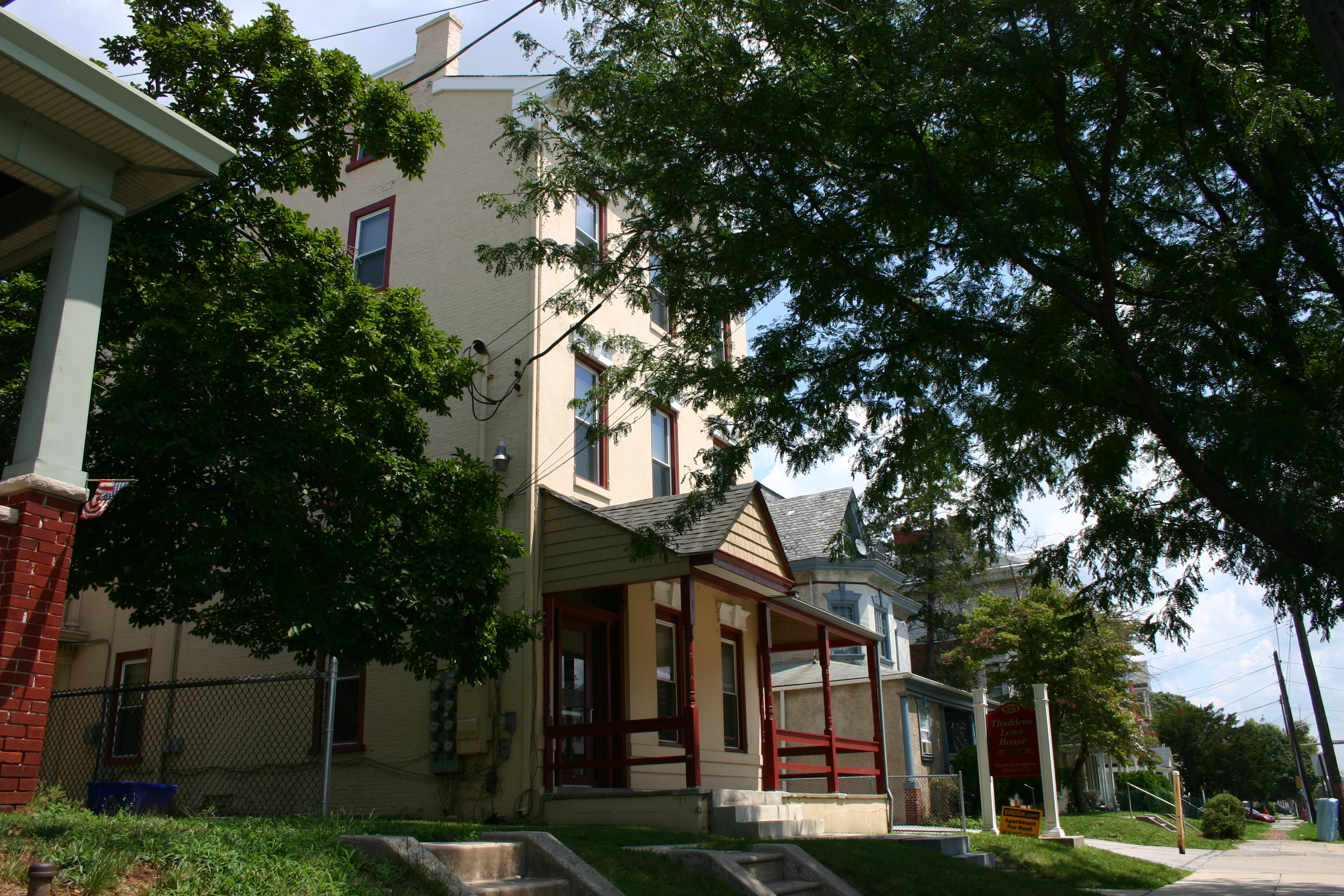 House where Thaddeus Lowe lived and worked in Norristown, PA during the 1870s and 1880s